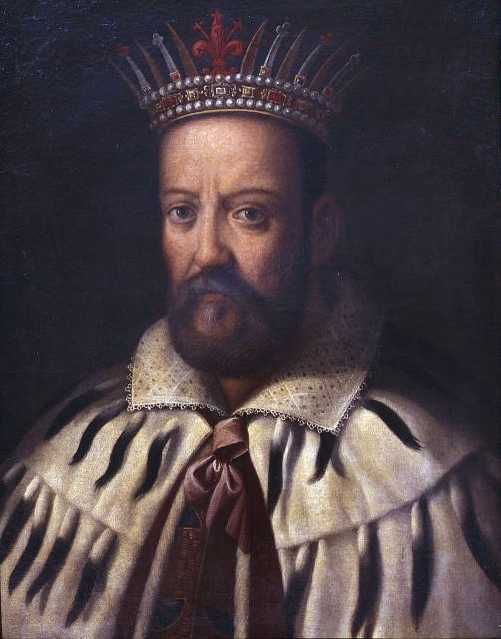 Portrait of Grand Duke Cosimo I de' Medici with crown and coronation robe. The painting is a cropped version of the portrait commissioned in 1585 by Francesco I (Cosimo's son) for the “serie aulica” (a series of portraits of the most distingueshed members of the Medici family).